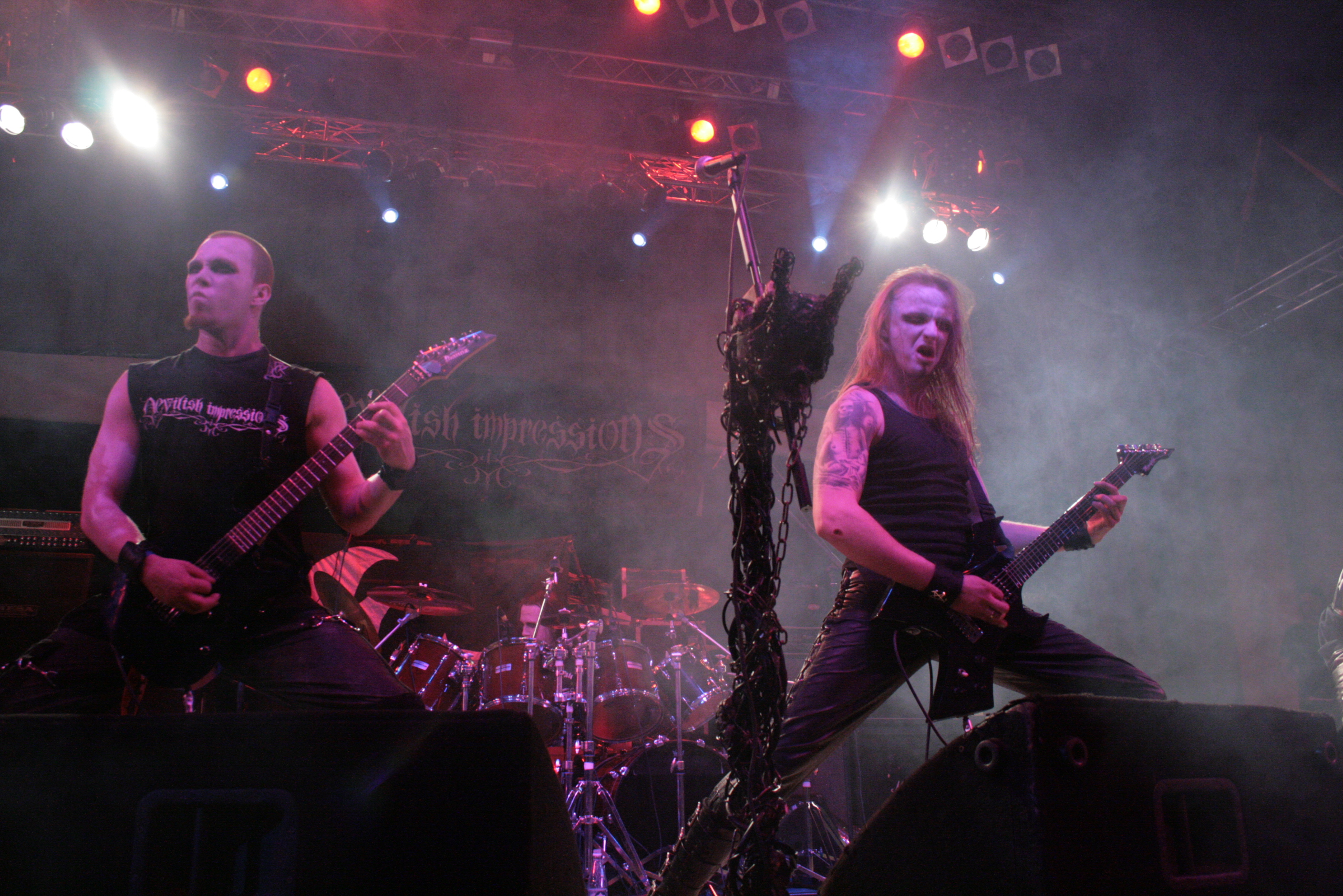 Polish avantgarde metal band Devilish Impressions at Wacken Road Show 2008